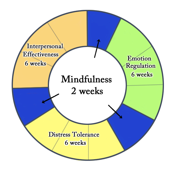 The Dialectical behavior therapy: Cycle of group skill training.